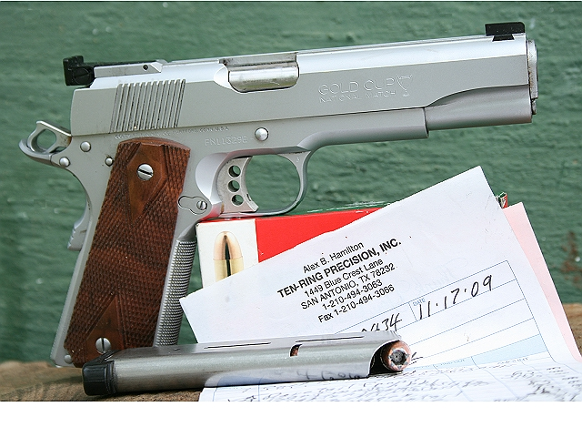 Colt Series 80 Gold Cup extensively customized by Tenring Precision.